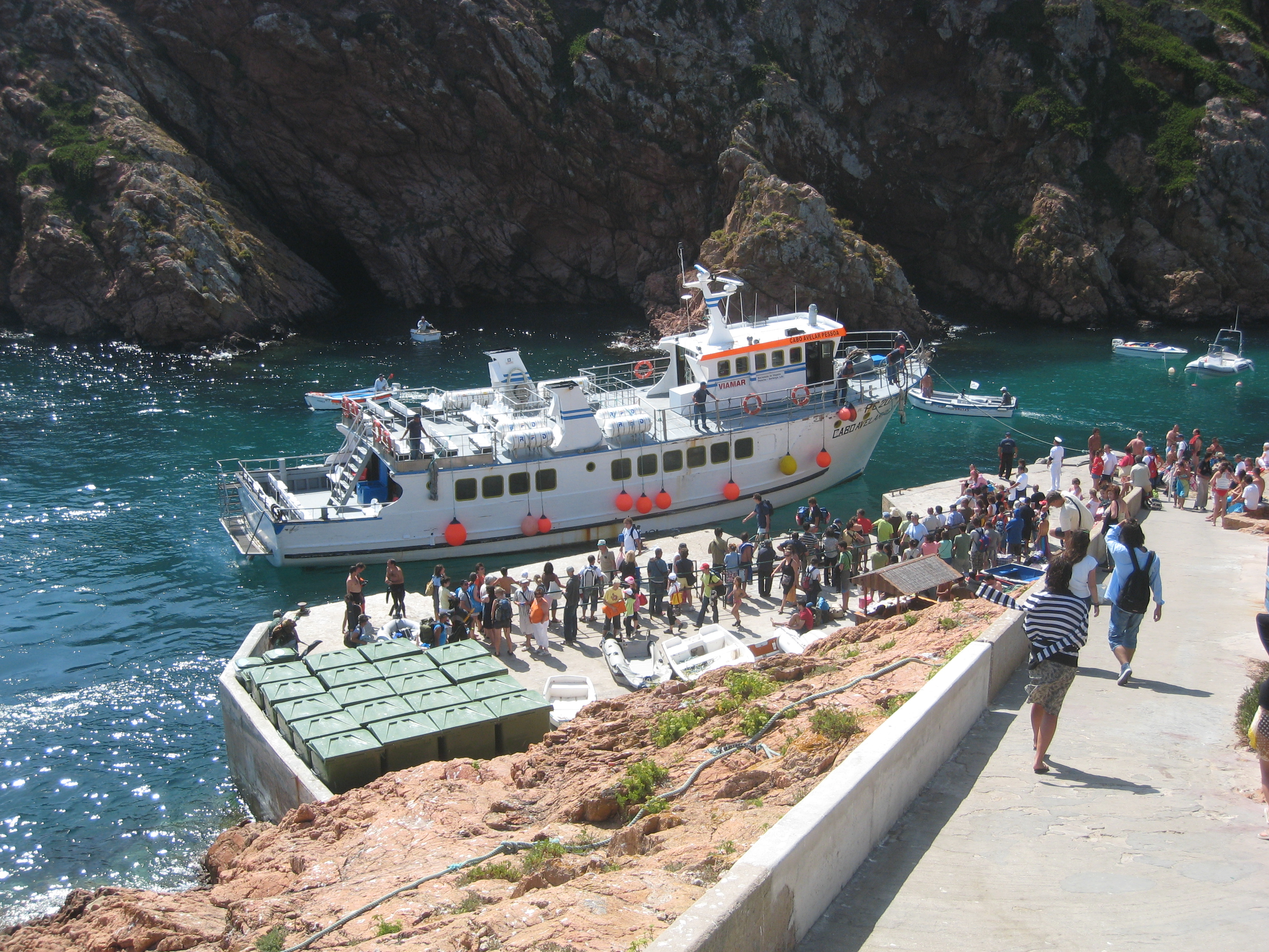 Berlengas, Portugal